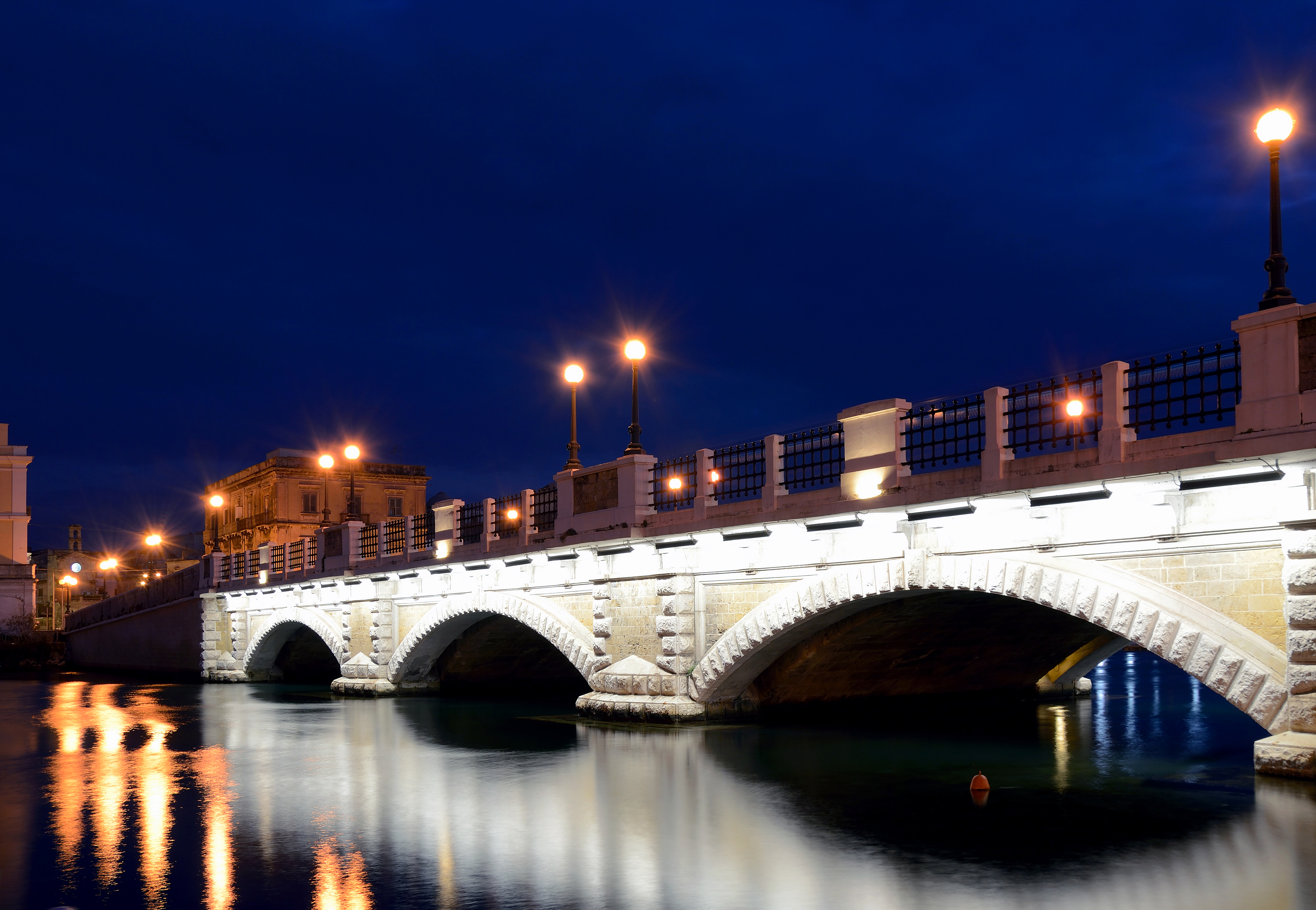 Stone bridge in Taranto